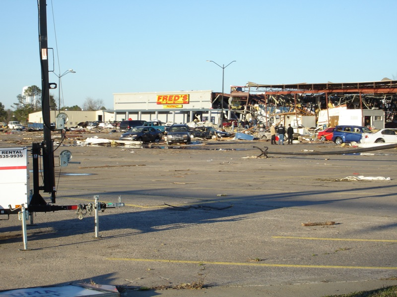 Members of Journey Church traveled to Dumas, AR Sunday after their worship service to help with clean up and to encourage the residents of Dumas. These are pics from that Sunday after the storm. (February 25, 2007)